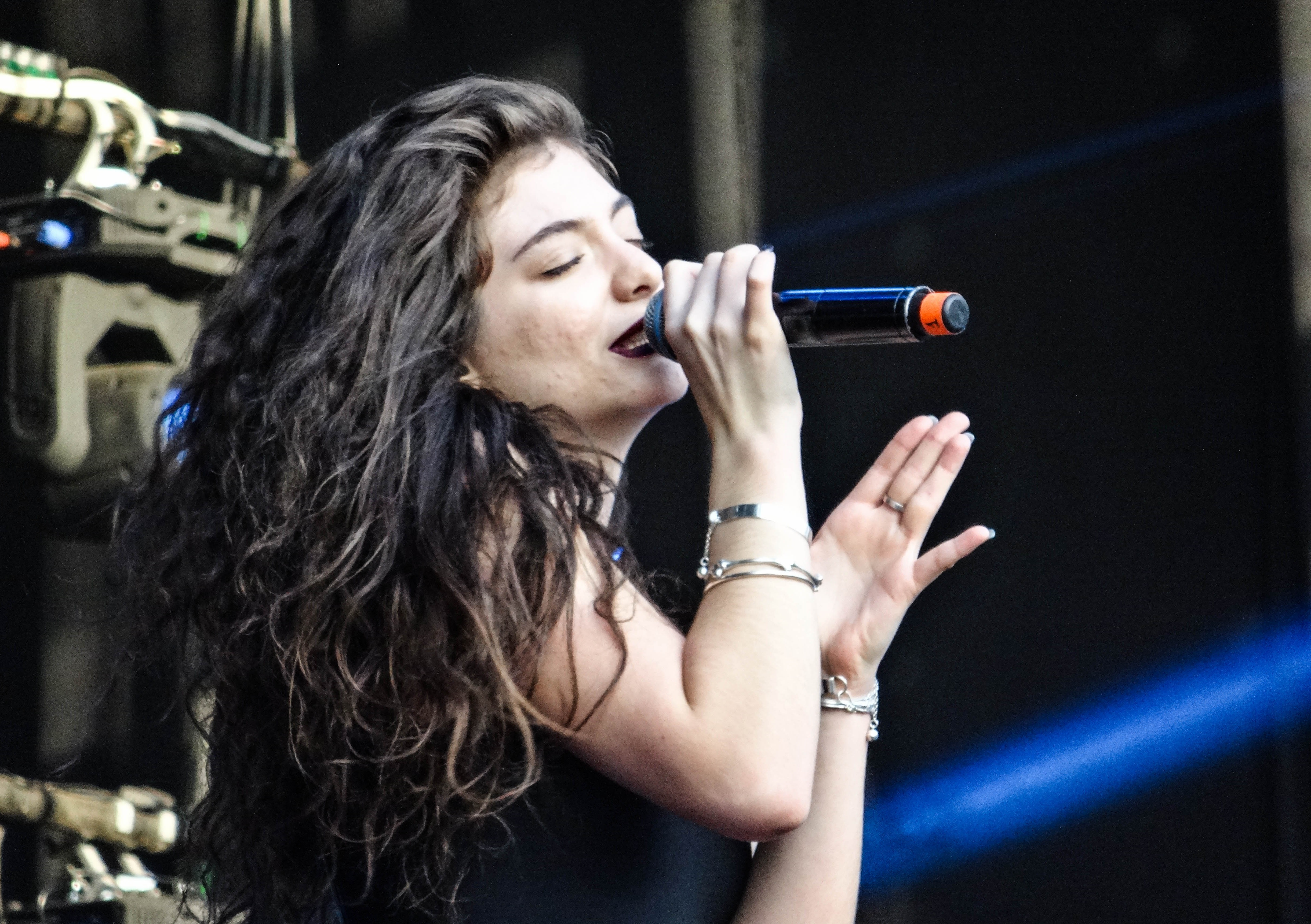 Lorde performing at Lollapalooza Chile in March 2014